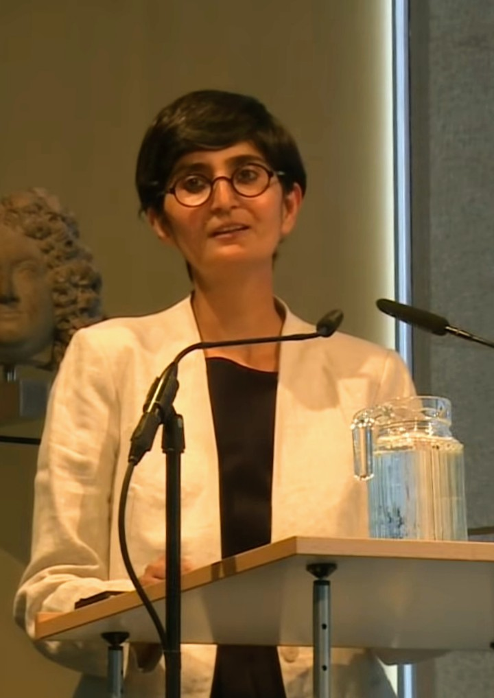 Streamed live on Jun 23, 2018 Symposium III "Planetary Utopias – Hope, Desire, Imaginaries in a Post-Colonial World" of the "Colonial Repercussions/Koloniales Erbe" event series at the Akademie der Künste, Berlin (23 and 24 June 2018